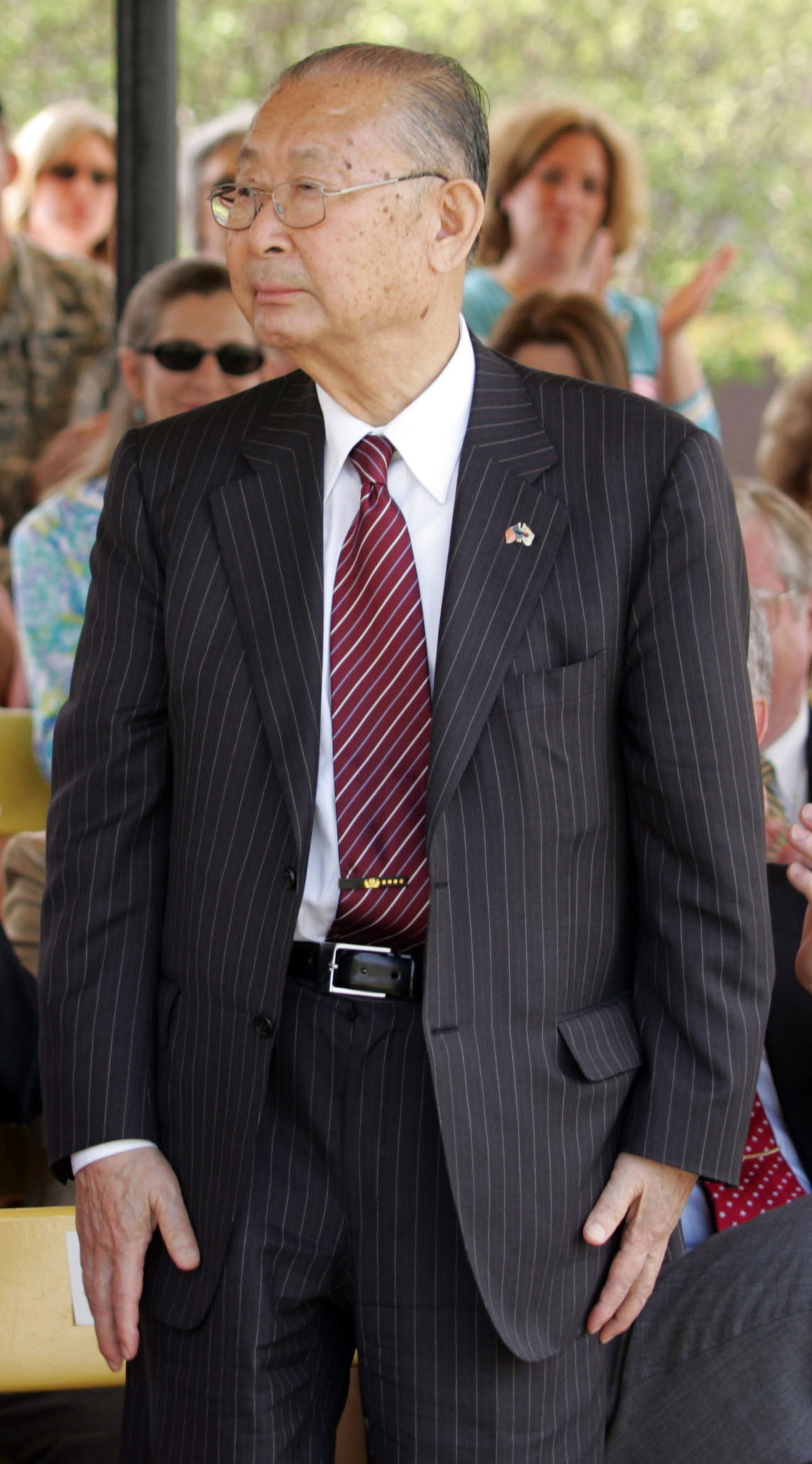 GEN PAIK IN FORT HOOD